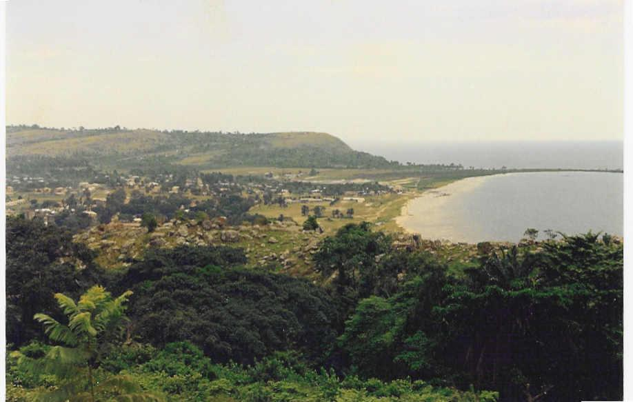 Taken by Andrew Coe, of Bukoba